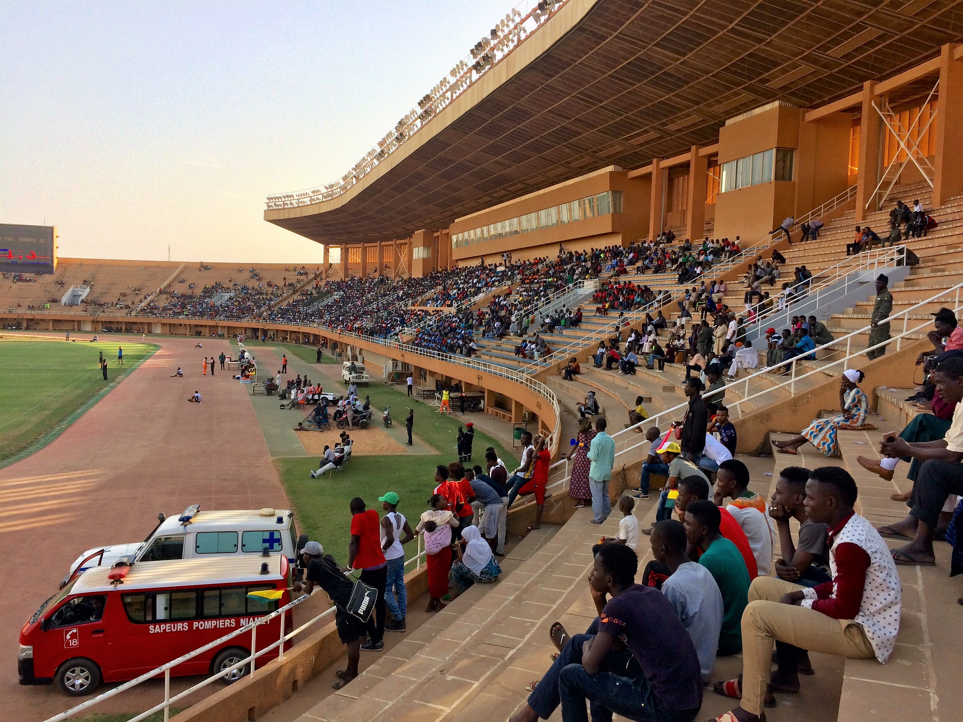 People watching a soccer match in the General Seyni Kountché Stadium in Niamey, Niger